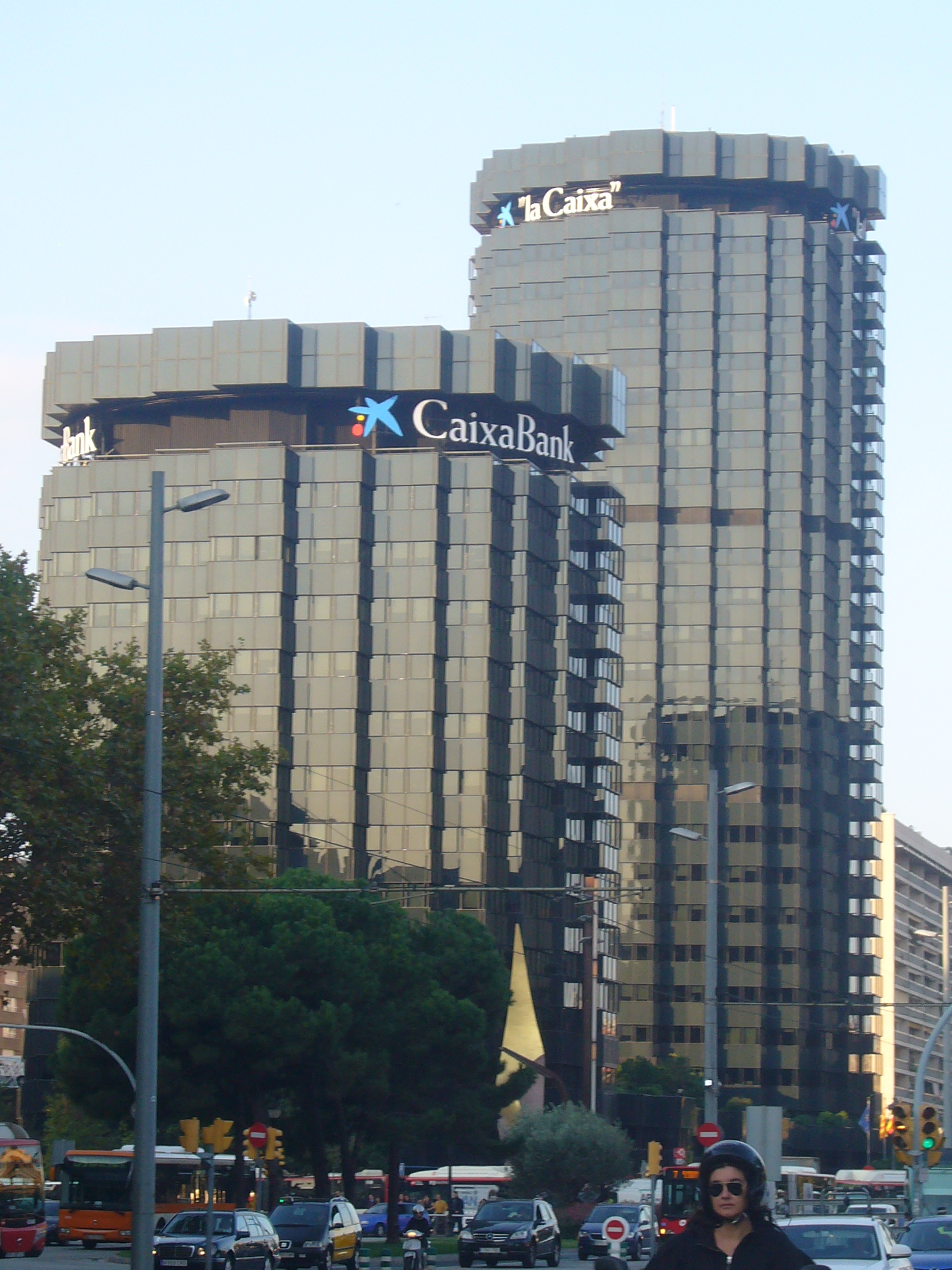 Head office towers of La Caixa